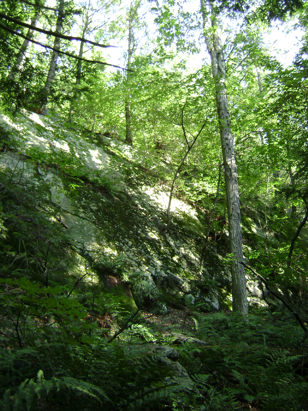 Image of a quartzite cliff in Hemlock Ridge Multiple Use Area, a state forest on the western flank of Marlboro Mountain, in Plattekill, southern Ulster County, New York, USA.